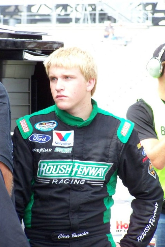 ORP Practice 2011